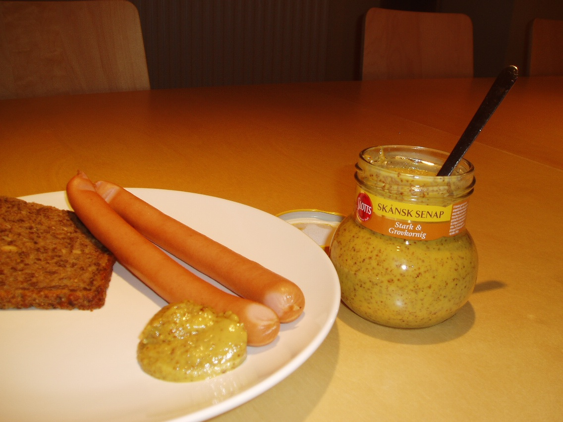 mustard from Scania (region), Sweden